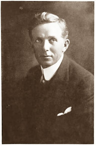 American actor and director George Medford.